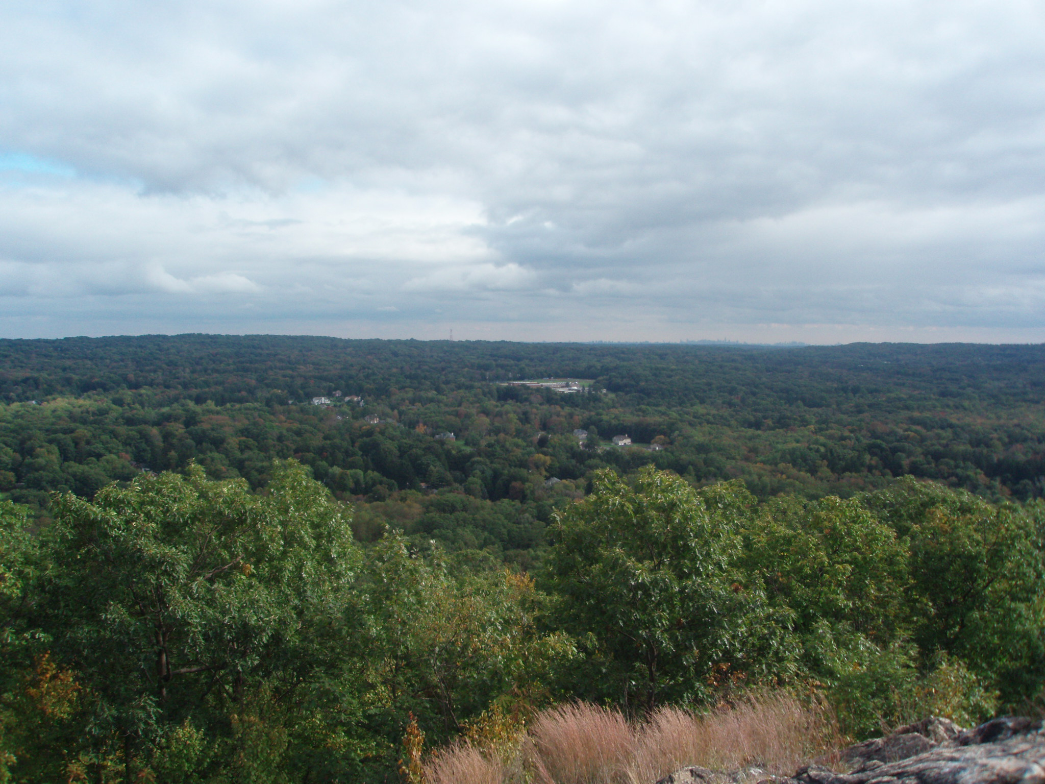 Overhead view of Ramapo, New York